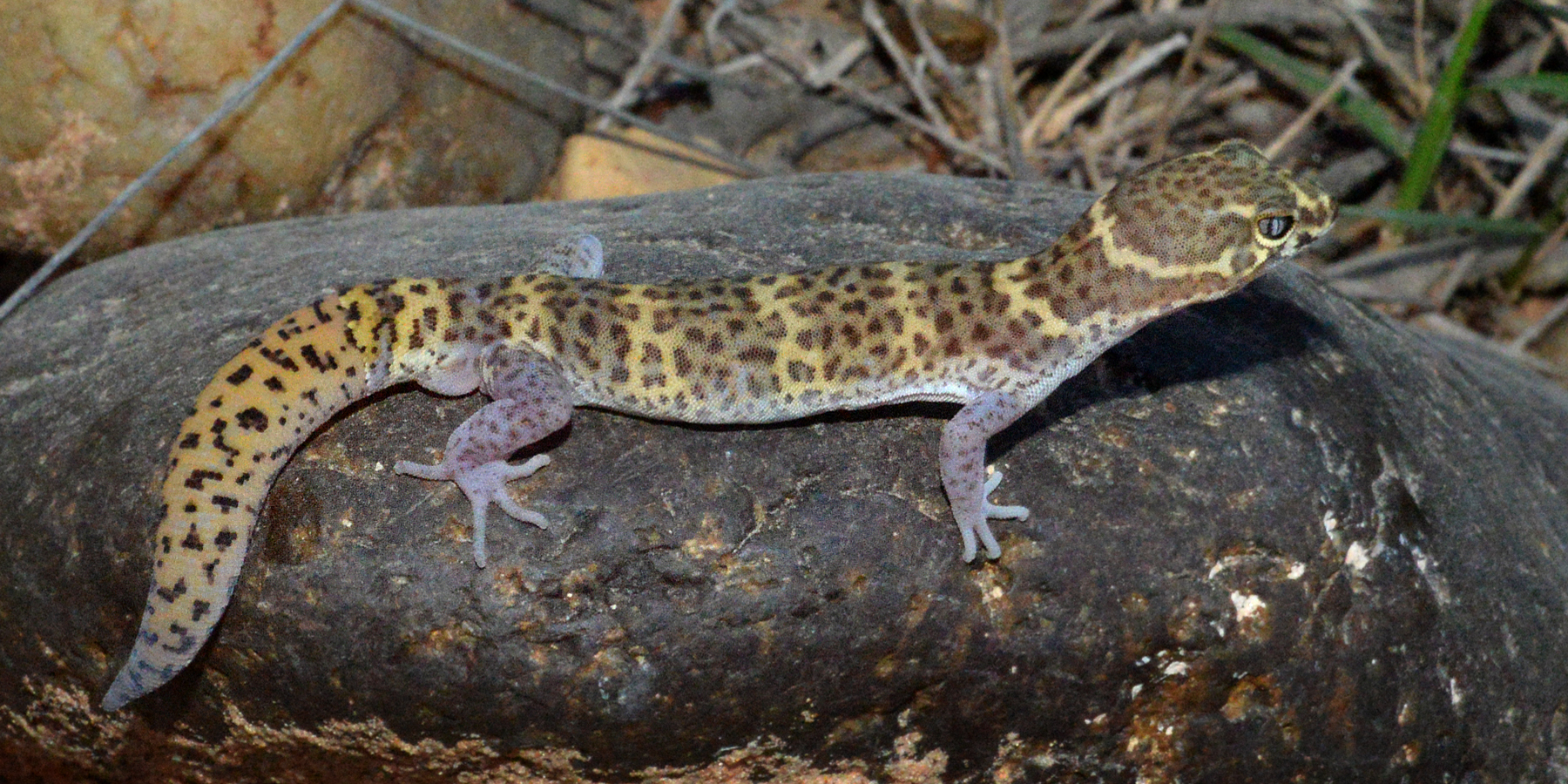 Texas Banded Gecko (Coleonyx brevis), Webb County Texas, USA. Photographed on 10 June 2016 by William L. Farr.